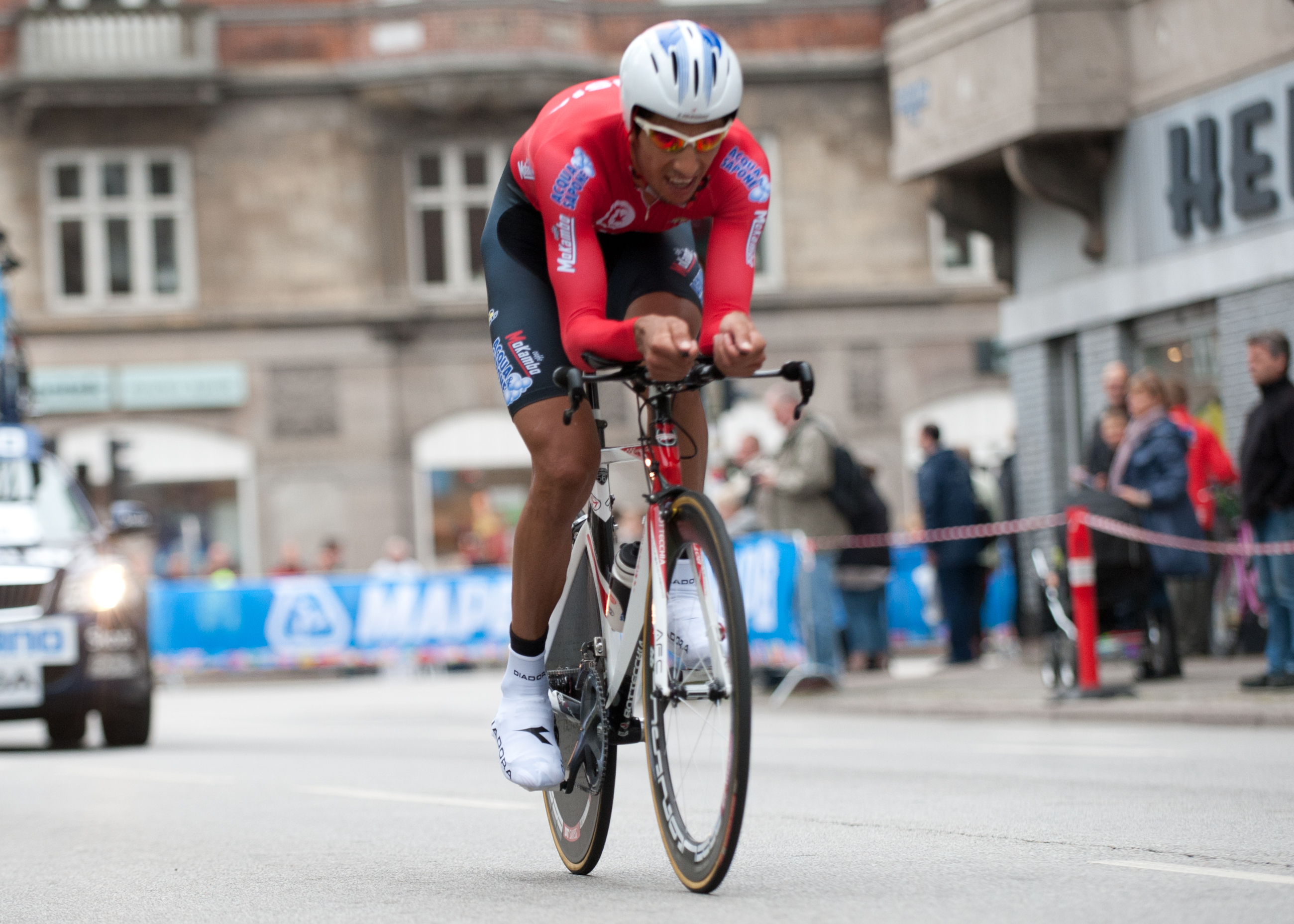 Rafaâ Chtioui at the 2011 UCI Road World Championship in Copenhagen.